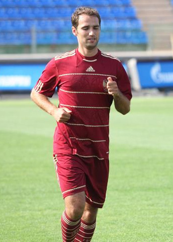 Russian midfielder Roman Shirokov